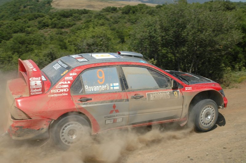 Harri Rovanperä driving a Mitsubishi Lancer WRC at the 2005 Acropolis Rally.